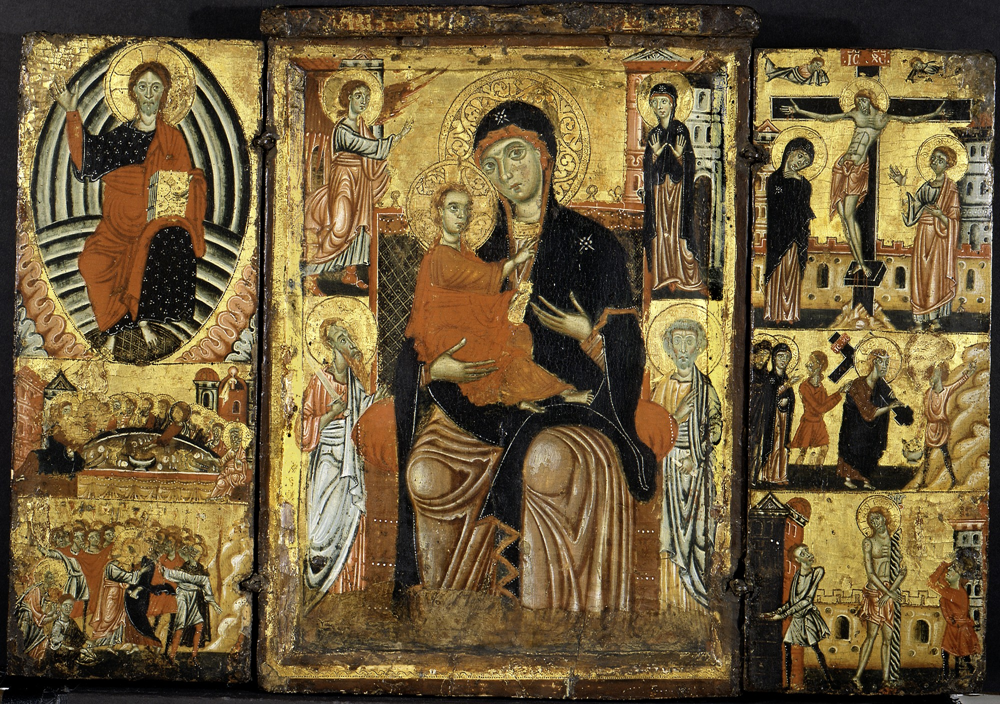 Painting, triptych; Paintings